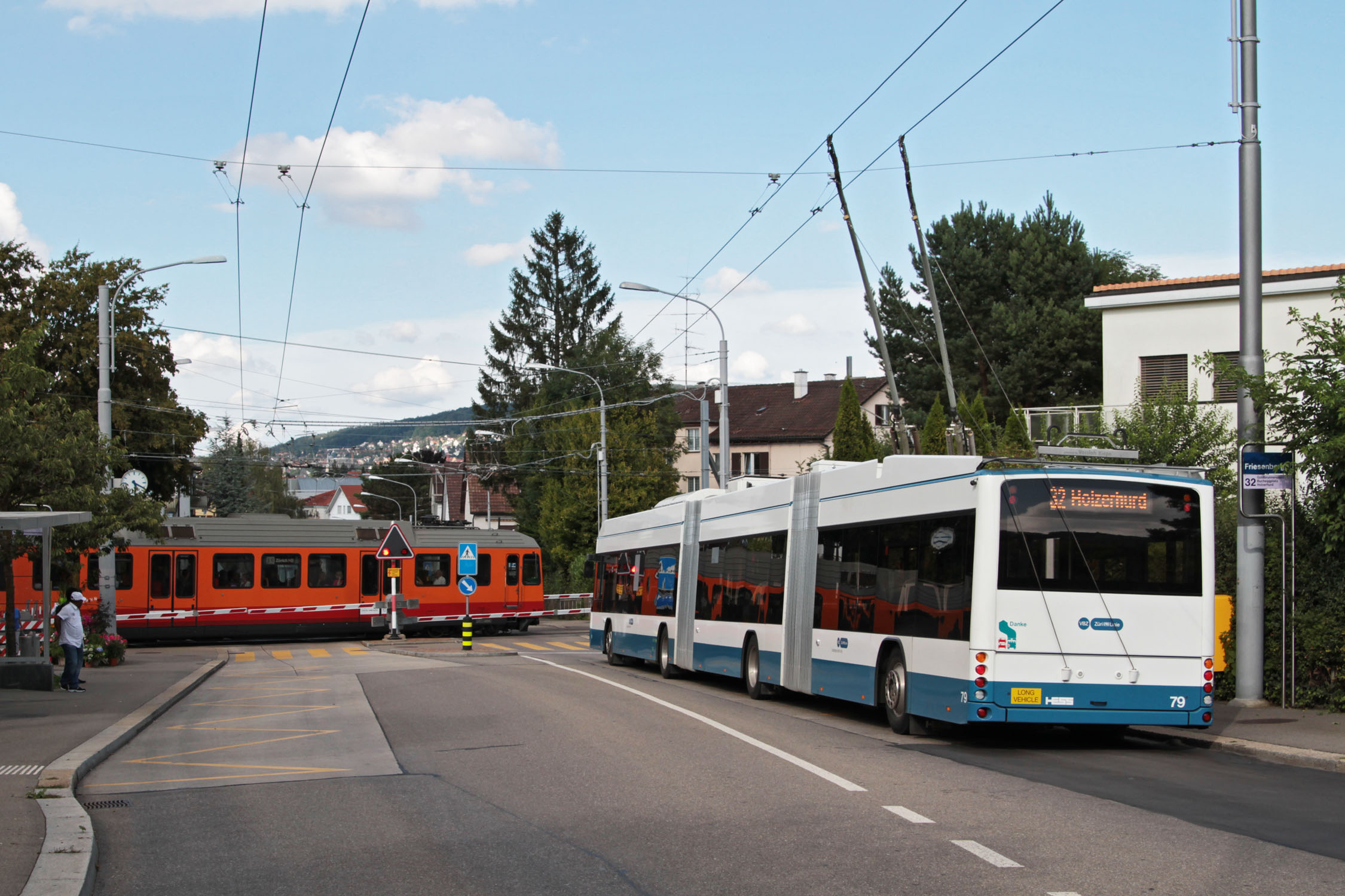 Verkehrsbetriebe Zürich's Hess/Vossloh-Kiepe lighTram No. 79 waits at the level crossing Friesenberg for the train of the Uetlibergbahn. While the trolleybus network has a voltage of 600 V DC, the Uetlibergbahn uses a voltage of 1200 V DC.